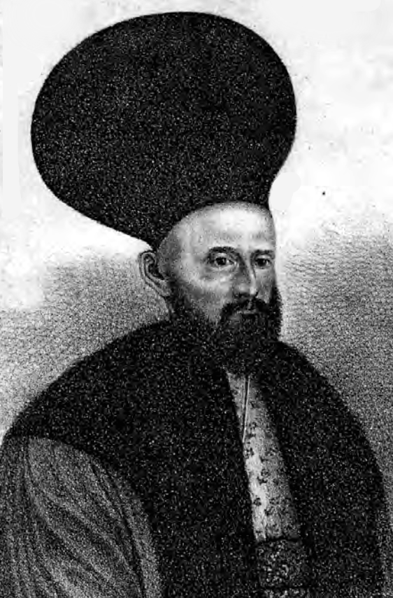 Posthumous lithograph of Alecu Beldiman, Moldavian statesman and writer, dressed in his boyar kalpak and kaftan. Original found in Alecu Balica's edition of Beldiman's Eterie sau jalnicele scene, 1861.